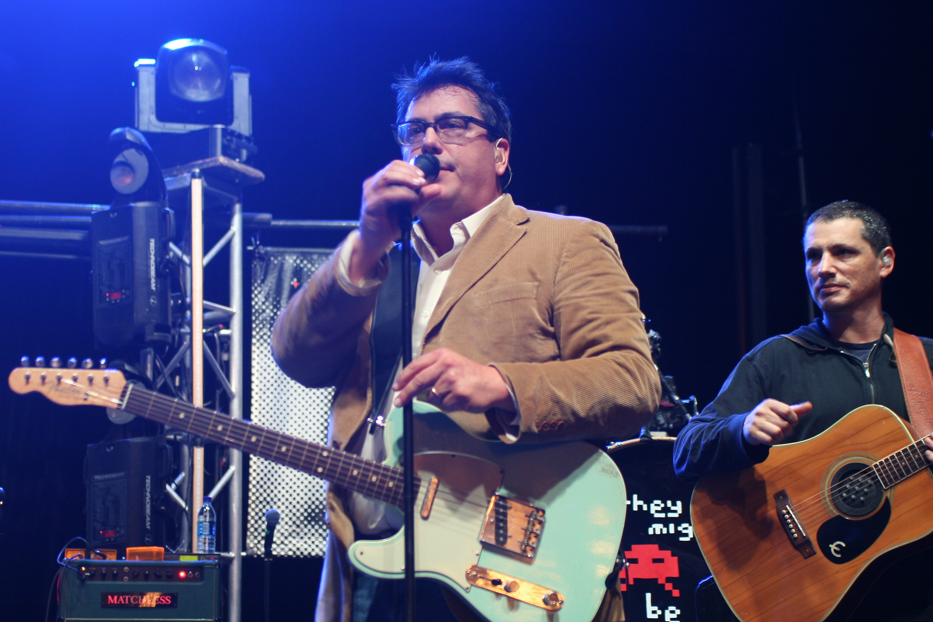 They Might Be Giants